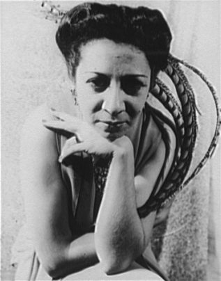 Elsie Houston clicked by Carl Van Vechten Portrait of Elsie Houston